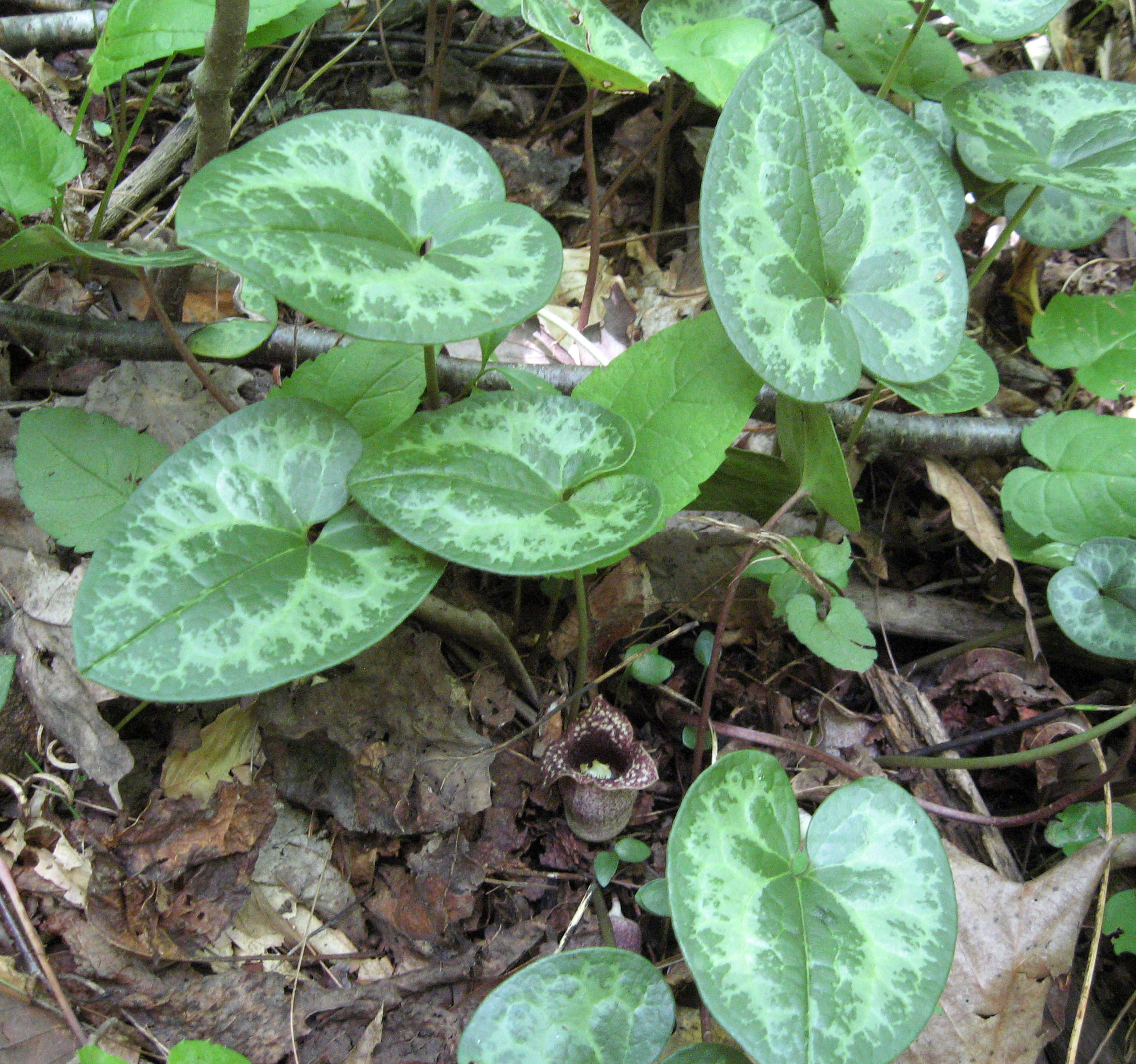 Hexastylis shuttleworthii, in mesic ravine of tributary to Ocoee River, Polk County, Tennessee.